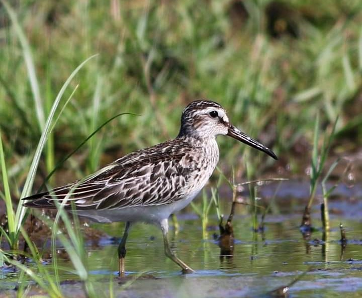 Broad-billed Sandpiper Calidris falcinellus, Chavakkad, Thrissur district, Kerala